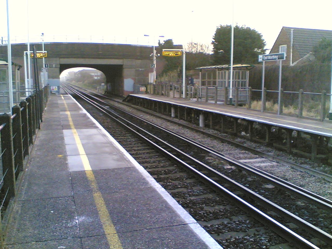 Depicted place: East Worthing railway station